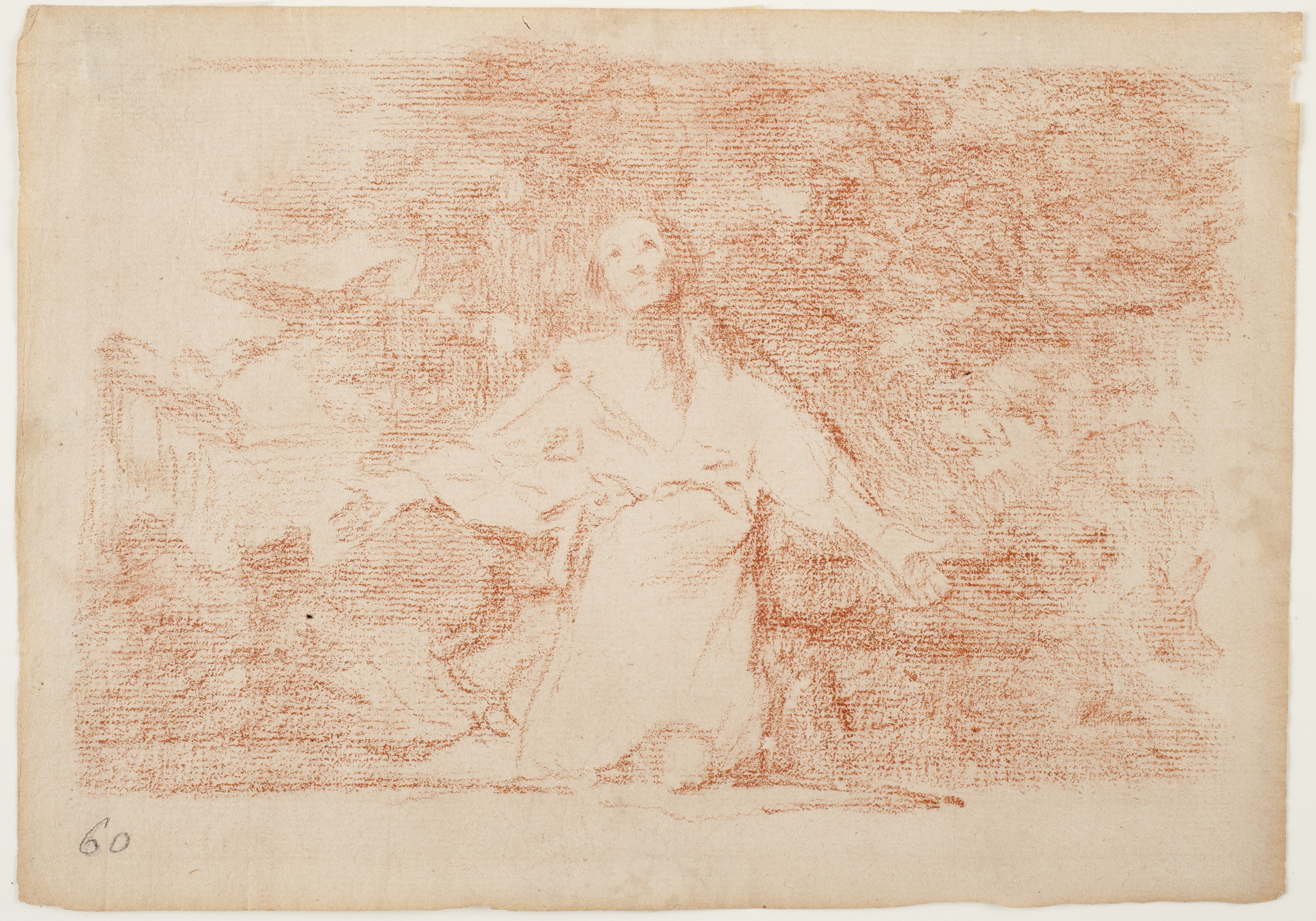 Los desastres de la guerra, preparatory drawing, plate No. 01